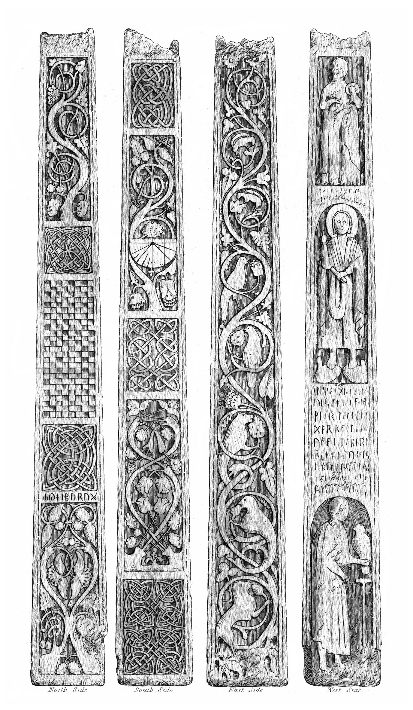 Diagram of the Bewcastle Cross, image from